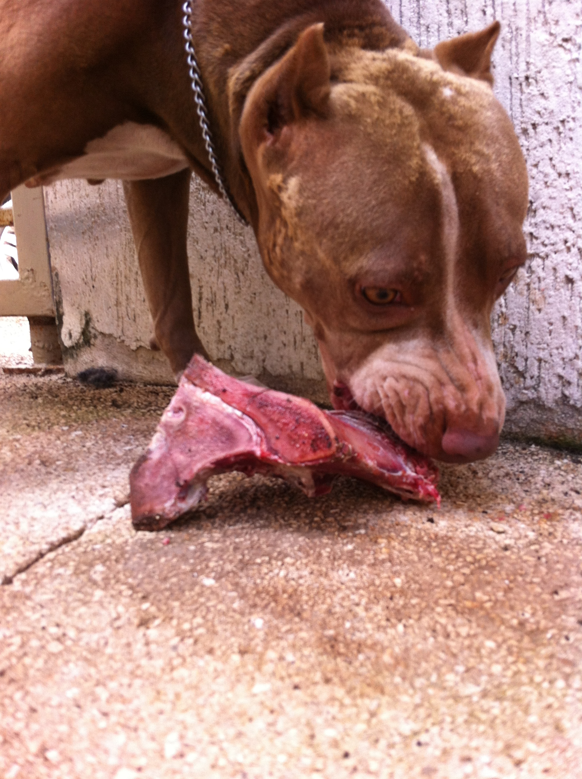 APBT Hathor taking a snack